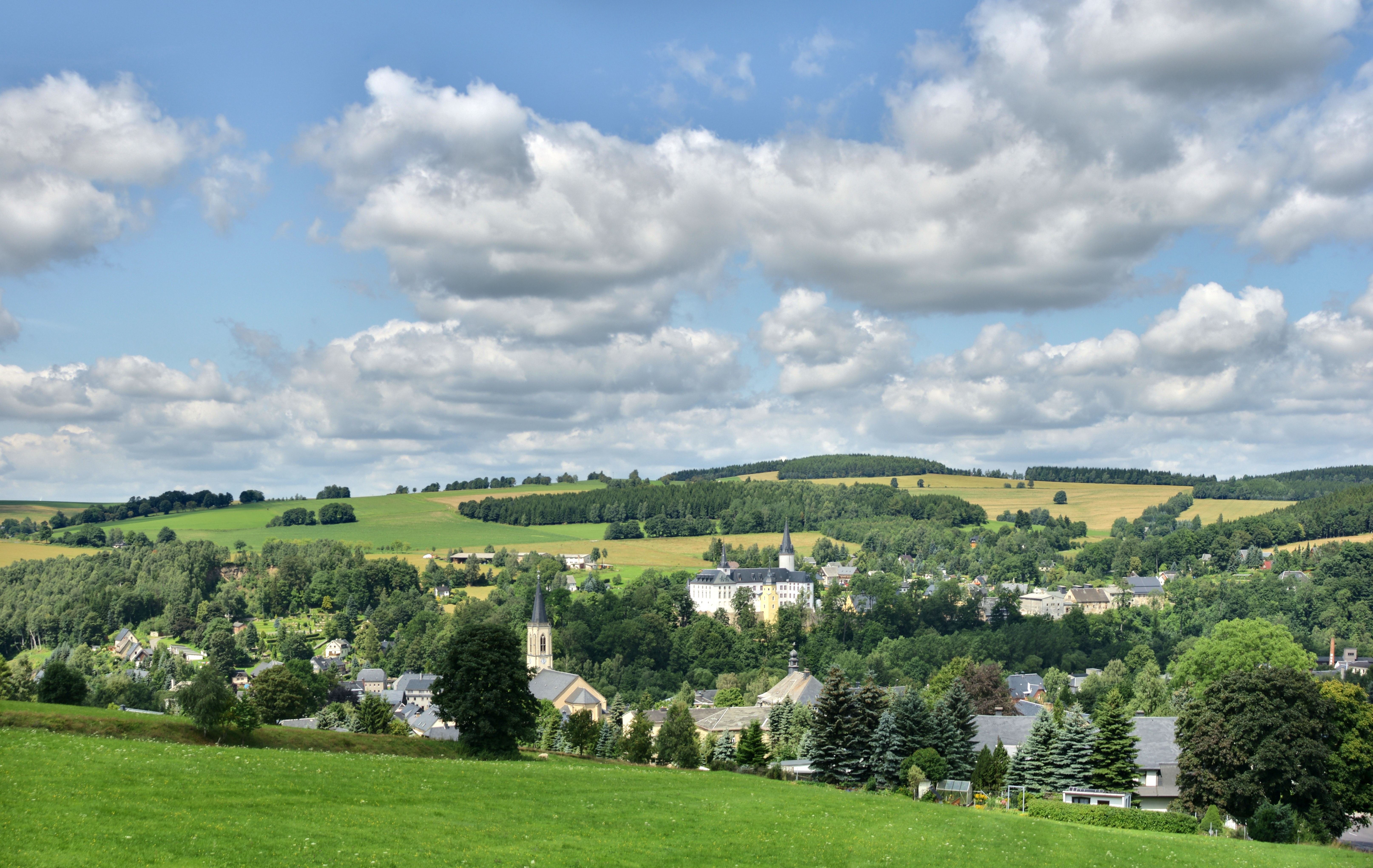 This image shows Neuhausen in the Ore Mountains in Saxony, Germany. pano of 4x3 upright pictures, fused and stitched with Hugin